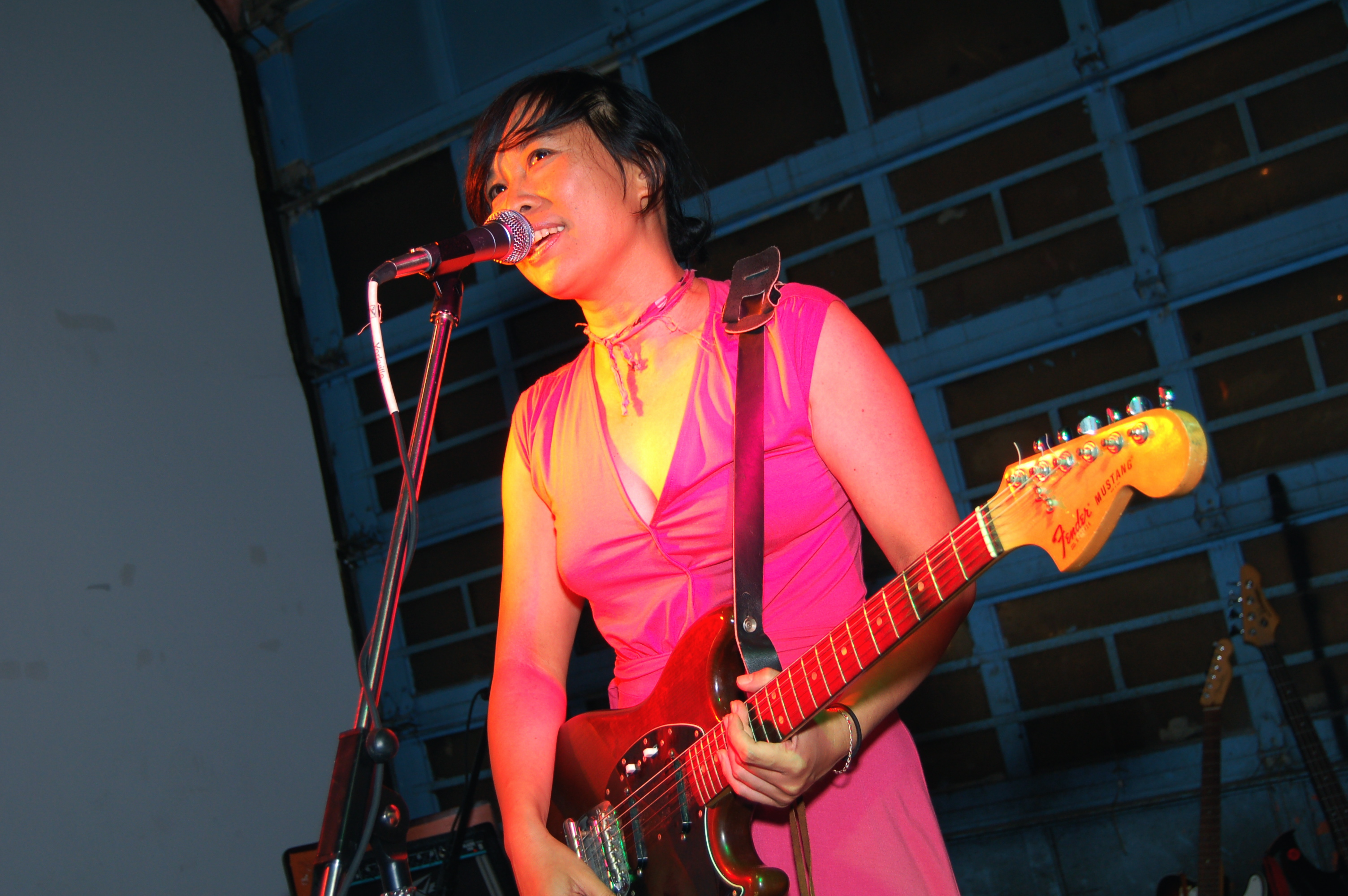 Sook Yin Lee performs at the premiere party for Year of the Carnivore at Rolly's Garage during the 34th Toronto International Film Festival. Shot on Sept. 10, 2009 for